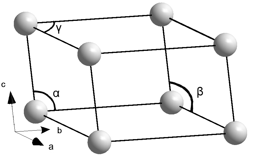 Structure of the Triclinic crystal system